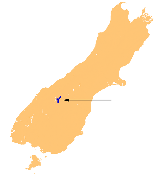 Location map of Lake Hawea, Queenstown Lakes District, Otago, New Zealand